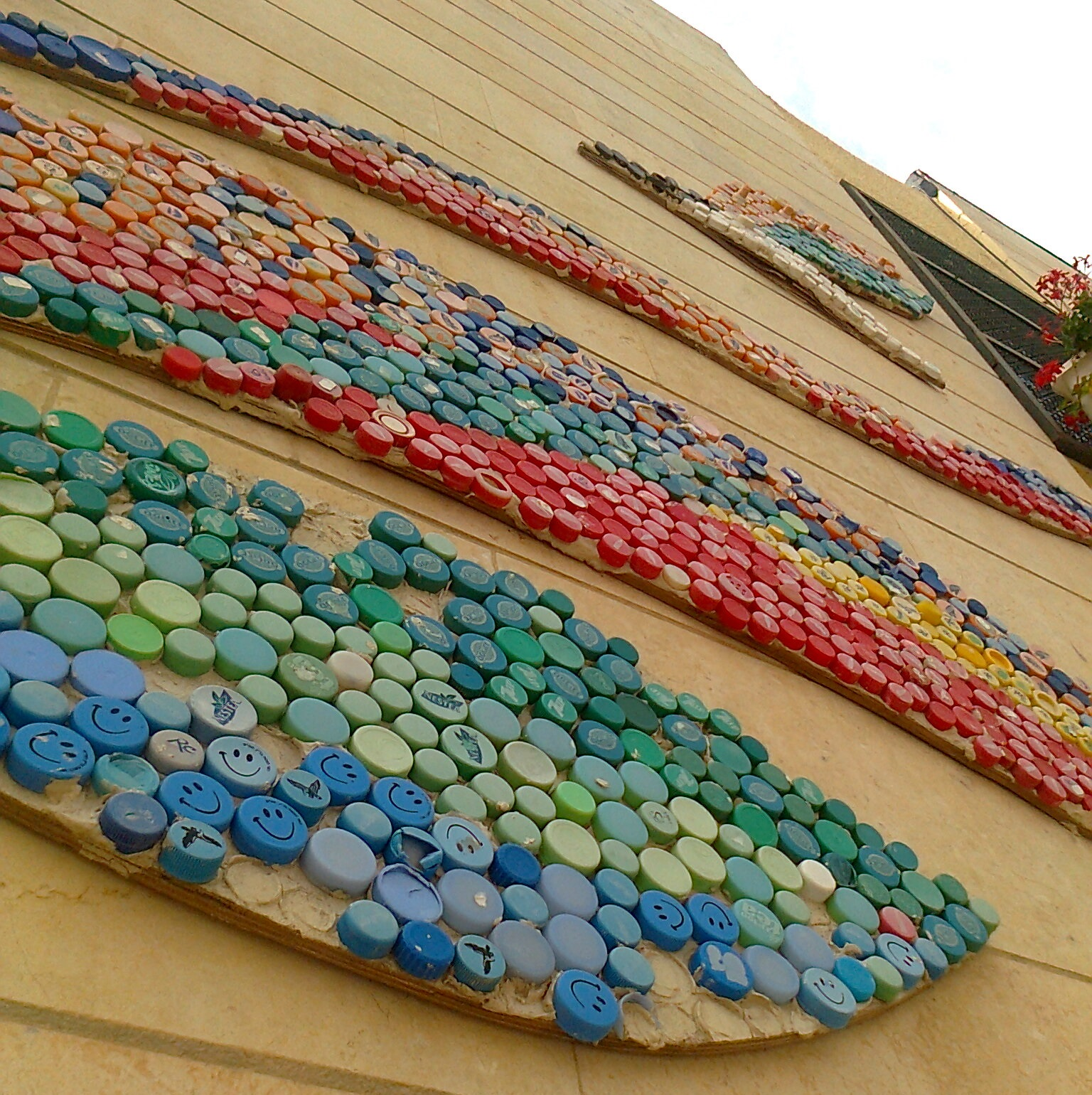 A detail of mosaic from a mural of a high school in Jerusalem, Israel